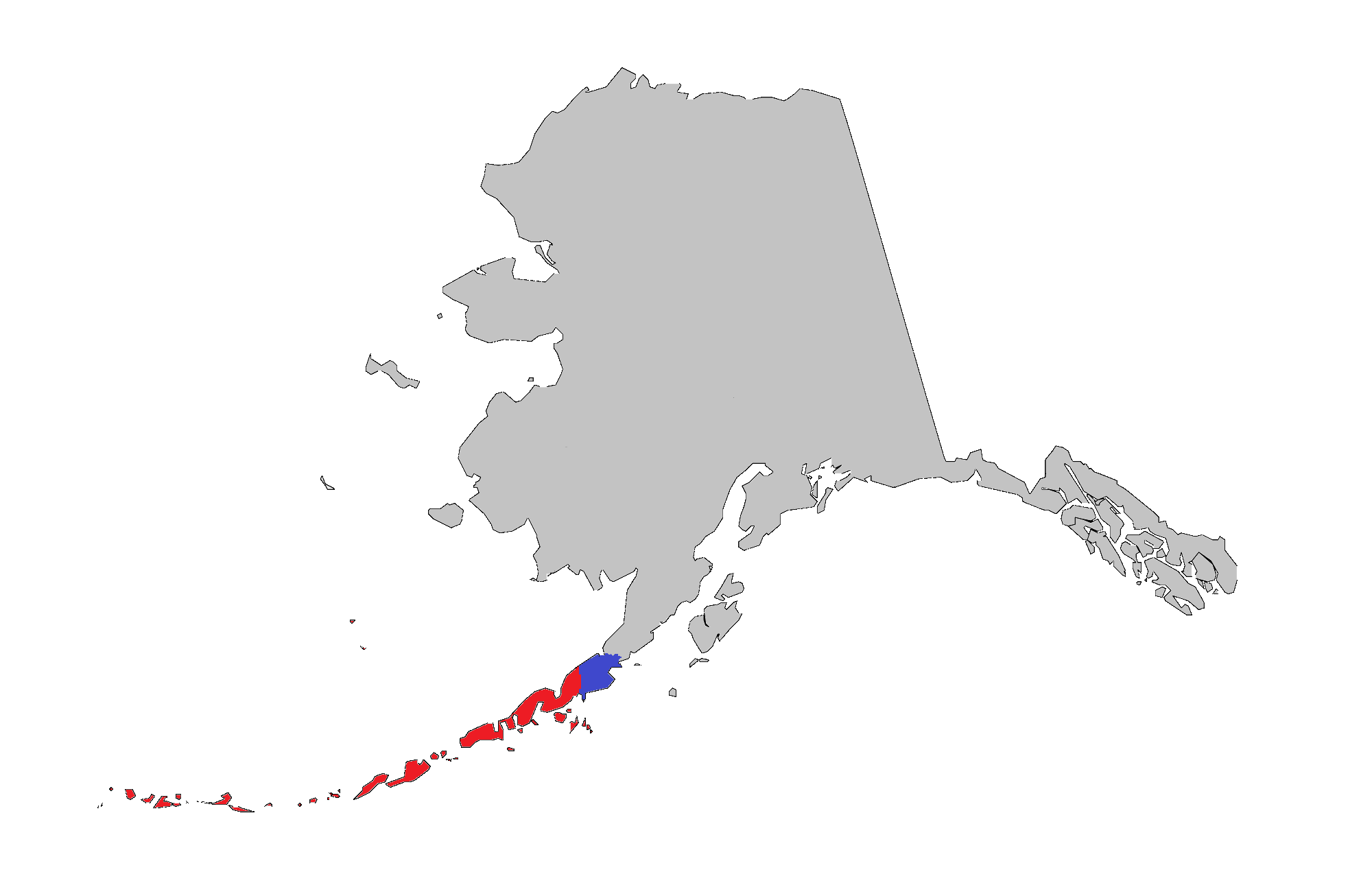 Red and blue: Aleutian Islands Census Area 1960-1980. Blue: Area transferede to Dillingham Census Area prior to the 1980-census.